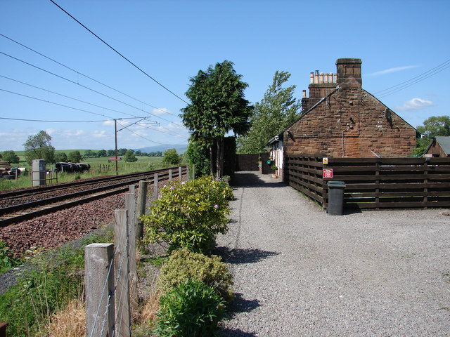 Station Cottage, Dinwoodie Former railway cottages by the West Coast Main Line, by site of Dinwoodie Station (closed 1960).